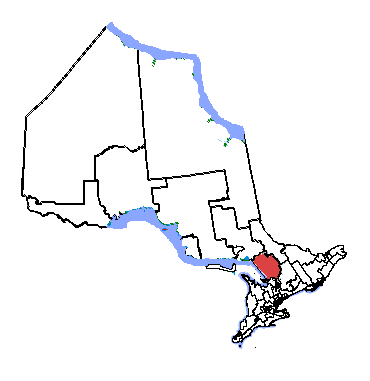 Map of the Parry Sound—Muskoka electoral district. Based on Earl Andrew's maps, created by SimonP.